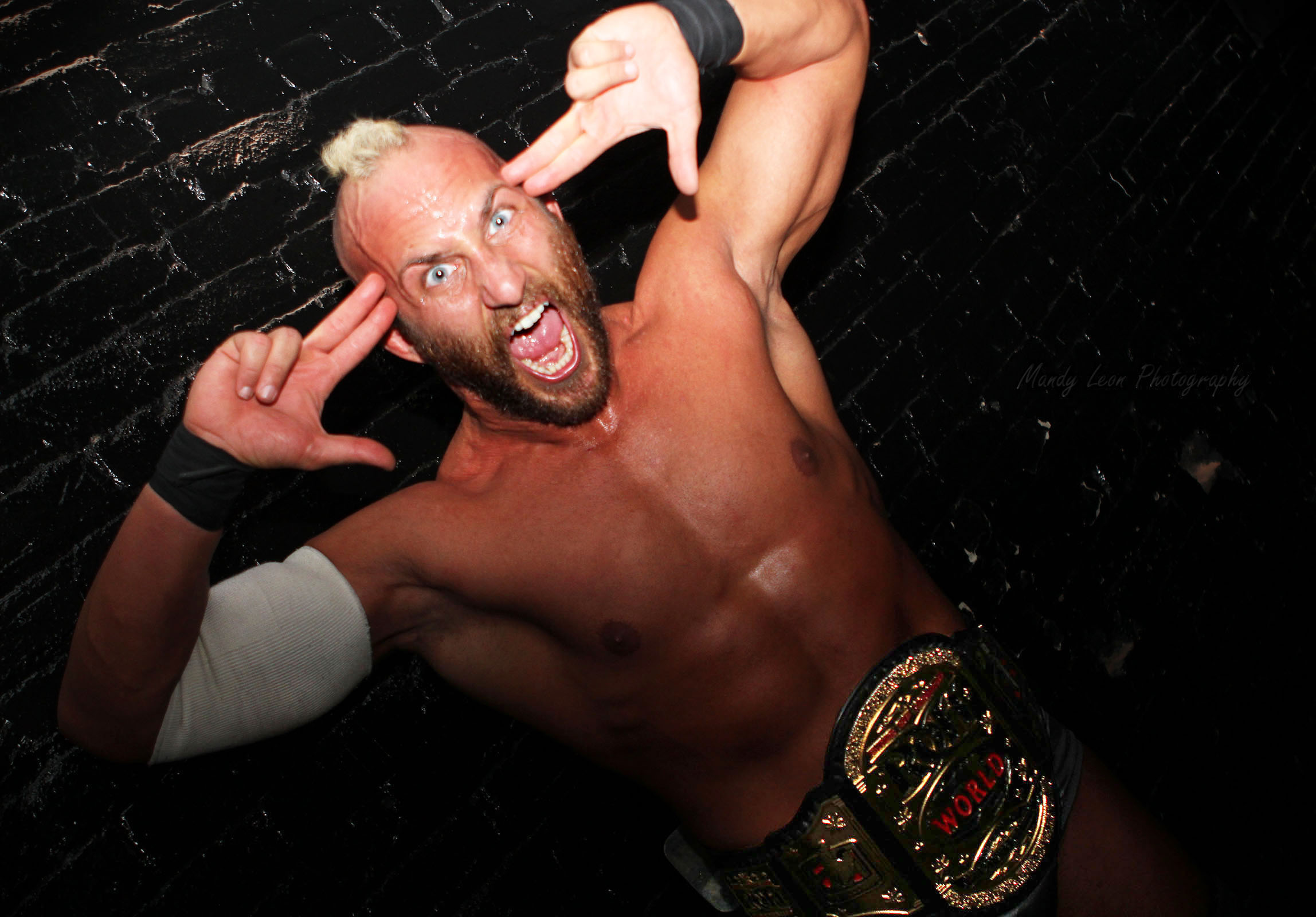 Tommaso Ciampa making his trademark "fingers to head" pose backstage at Final Battle 2013 directly after Ciampa began his first reign as ROH World Television Champion, when he defeated Matt Taven for the title